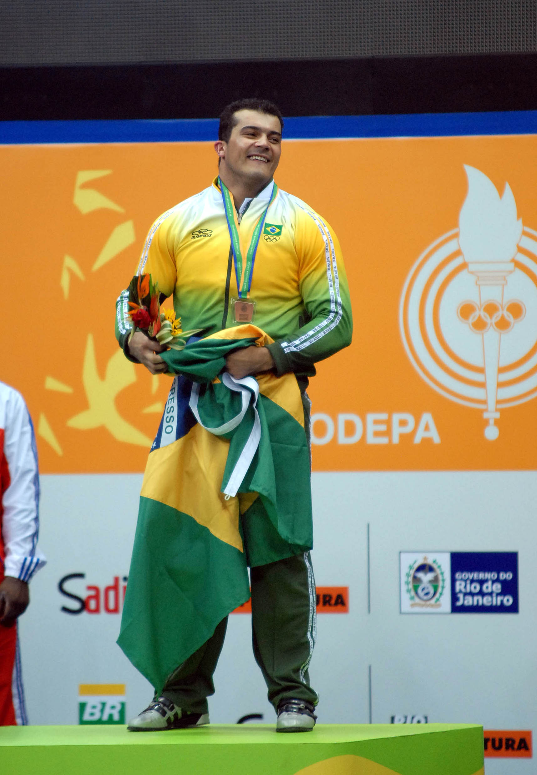 Fabrício Mafra receive the bronze medal in the 105kg+ weightlifting competition. Months later, he lost the medal because of doping.